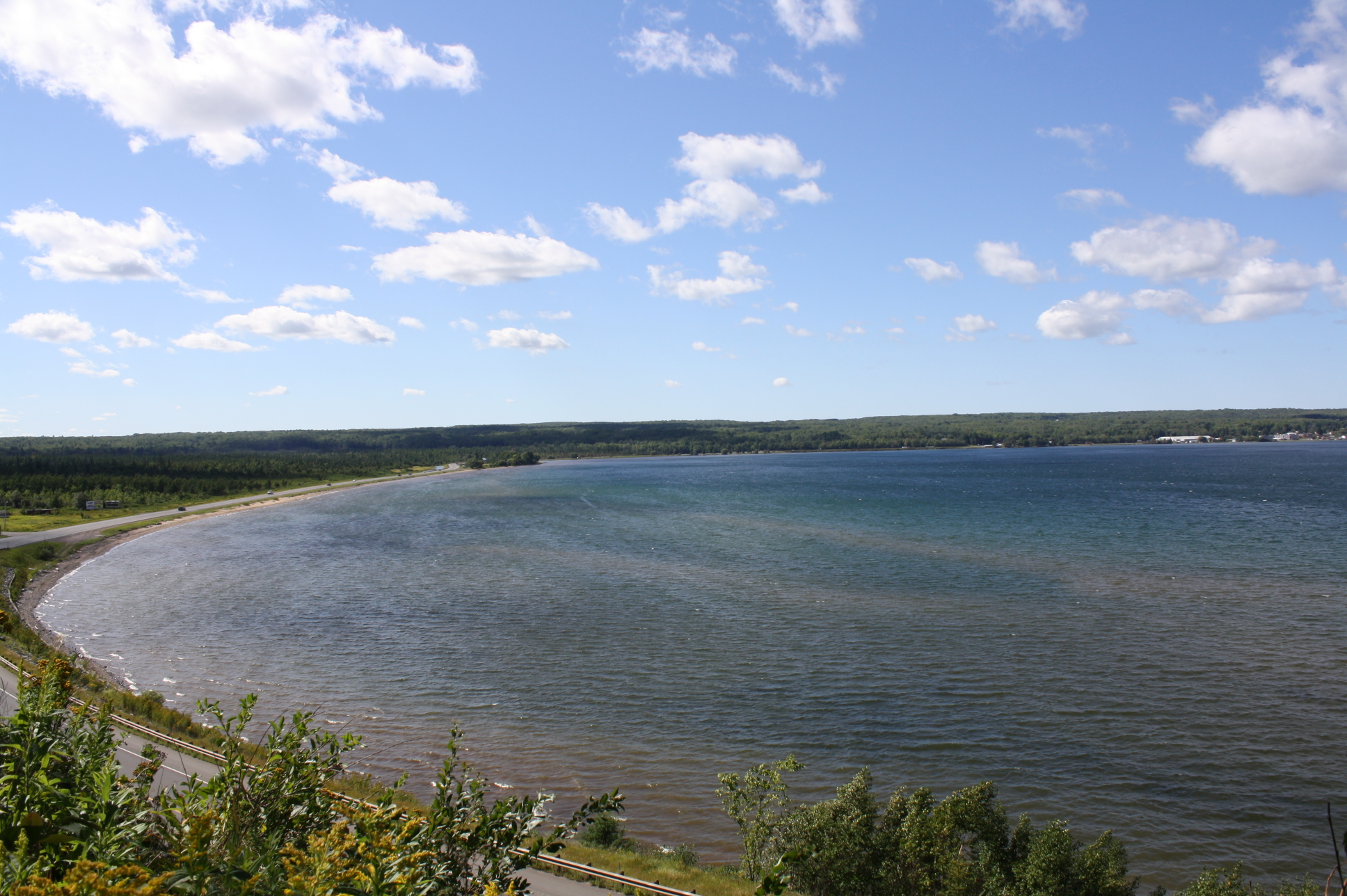 The base of the Keweenaw Bay. U.S. Route 41 is visible along the shoreline.